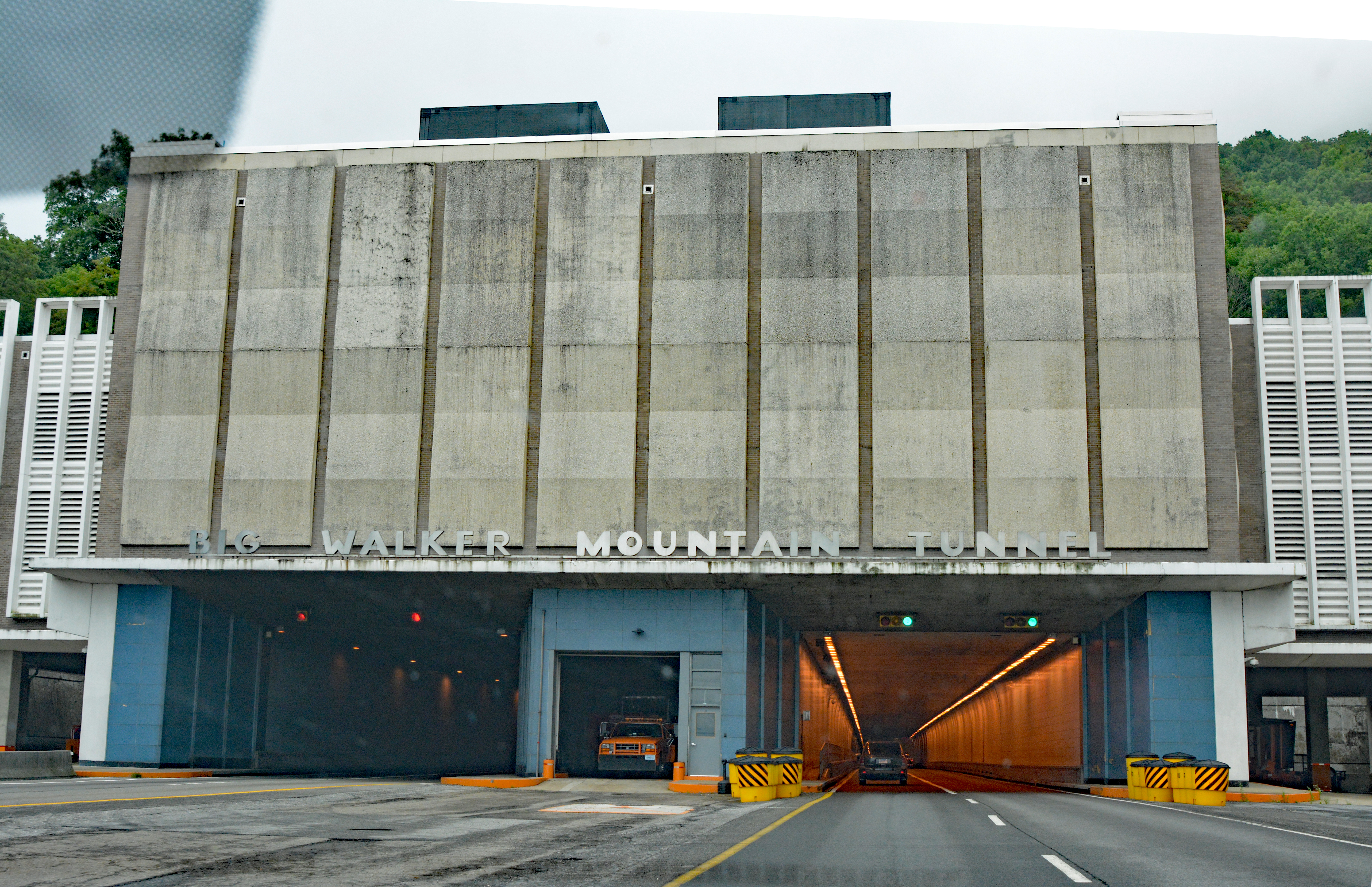 Big Walker Mountain Tunnel, north side. On I-77 in Virginia, U.S.